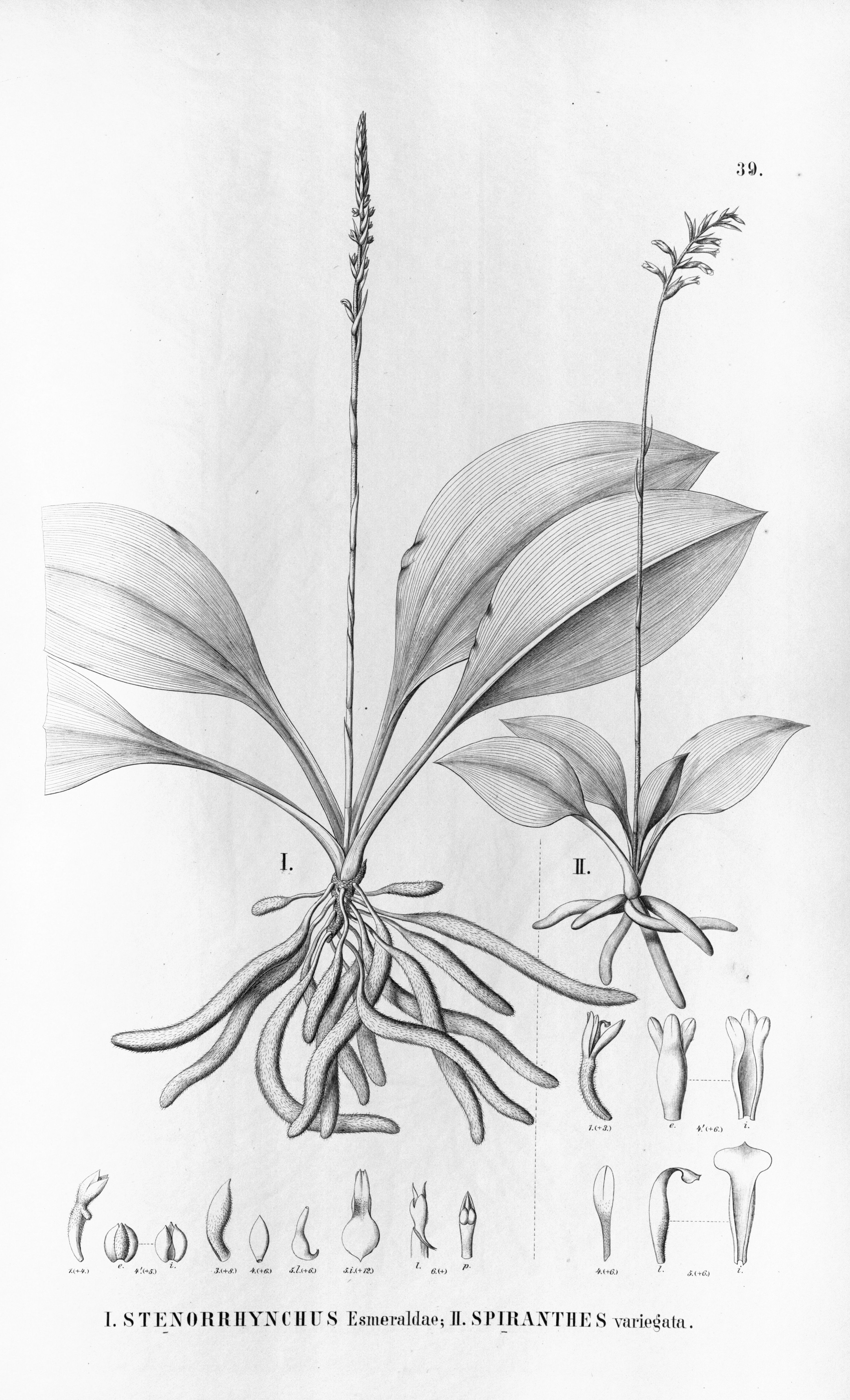 Illustration of I. Mesadenella cuspidata (as syn. Stenorrhynchos esmeraldae) II. Cyclopogon variegatus (as syn. Spiranthes variegata)